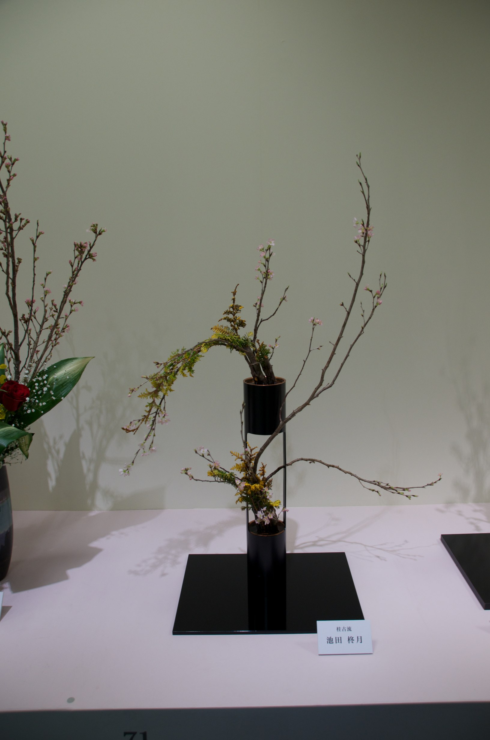 Katsura Ko-ryū ikebana arrangement. Exhibition held in Japan.